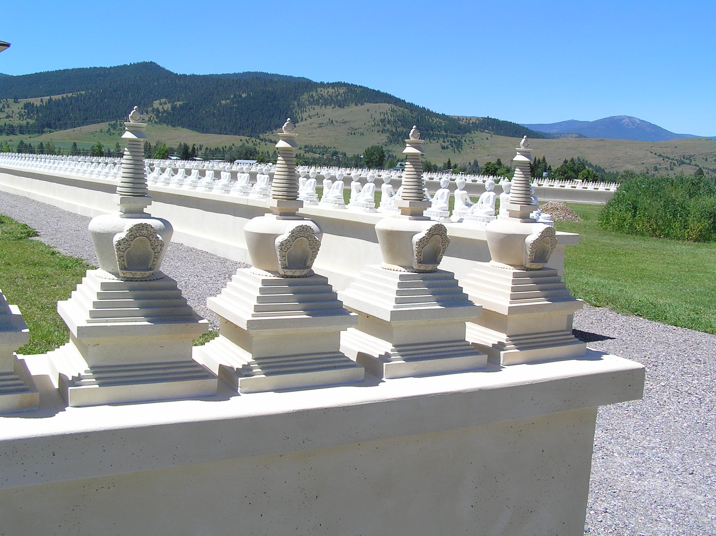 The Garden of One Thousand Buddhas, near Arlee, Montana